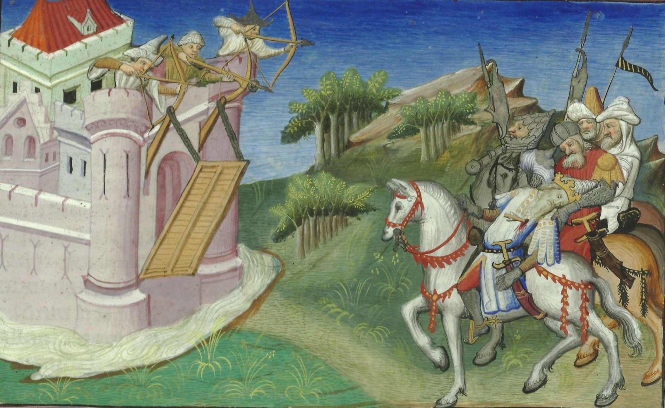 Death of Genghis Khan. The Travels of Marco Polo